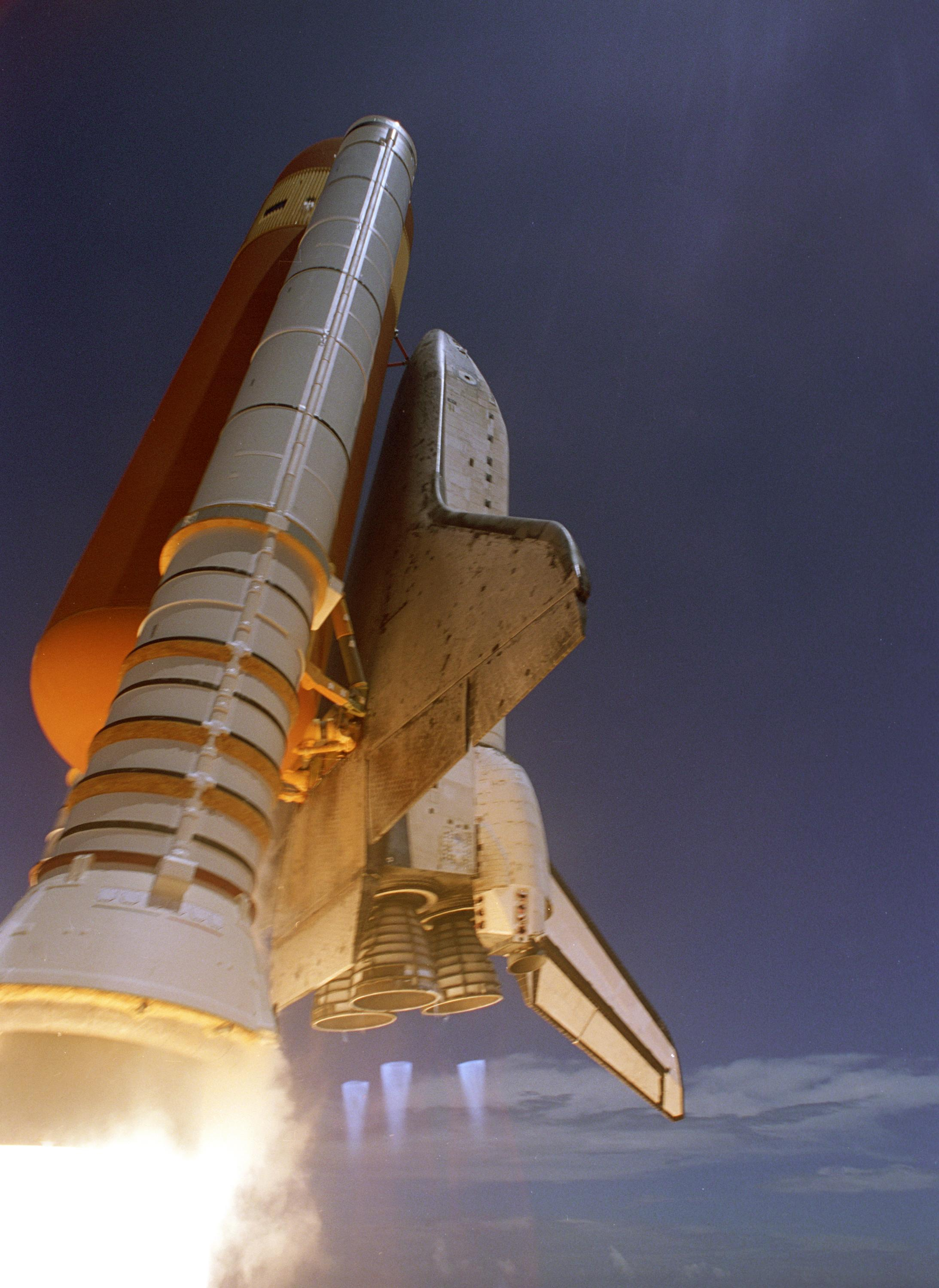 KENNEDY SPACE CENTER, FLA. – Making history with the first-ever launch on Independence Day, Space Shuttle Discovery rockets into the blue sky on mission STS-121, trailing fiery exhaust and blue mach diamonds from the main engine nozzles. Liftoff was on-time at 2:38 p.m. EDT. During the 12-day mission, the STS-121 crew of seven will test new equipment and procedures to improve shuttle safety, as well as deliver supplies and make repairs to the International Space Station. Landing is scheduled for July 17 at Kennedy's Shuttle Landing Facility.